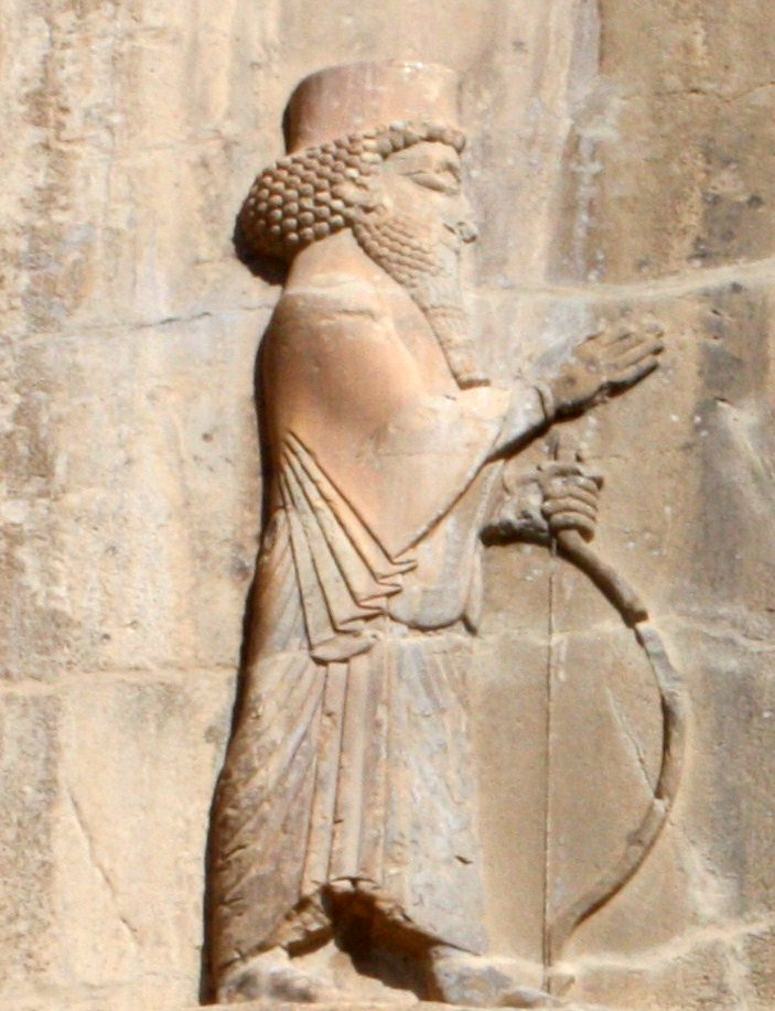 Artaxerxes III of Persia, from his Tomb at Persepolis.